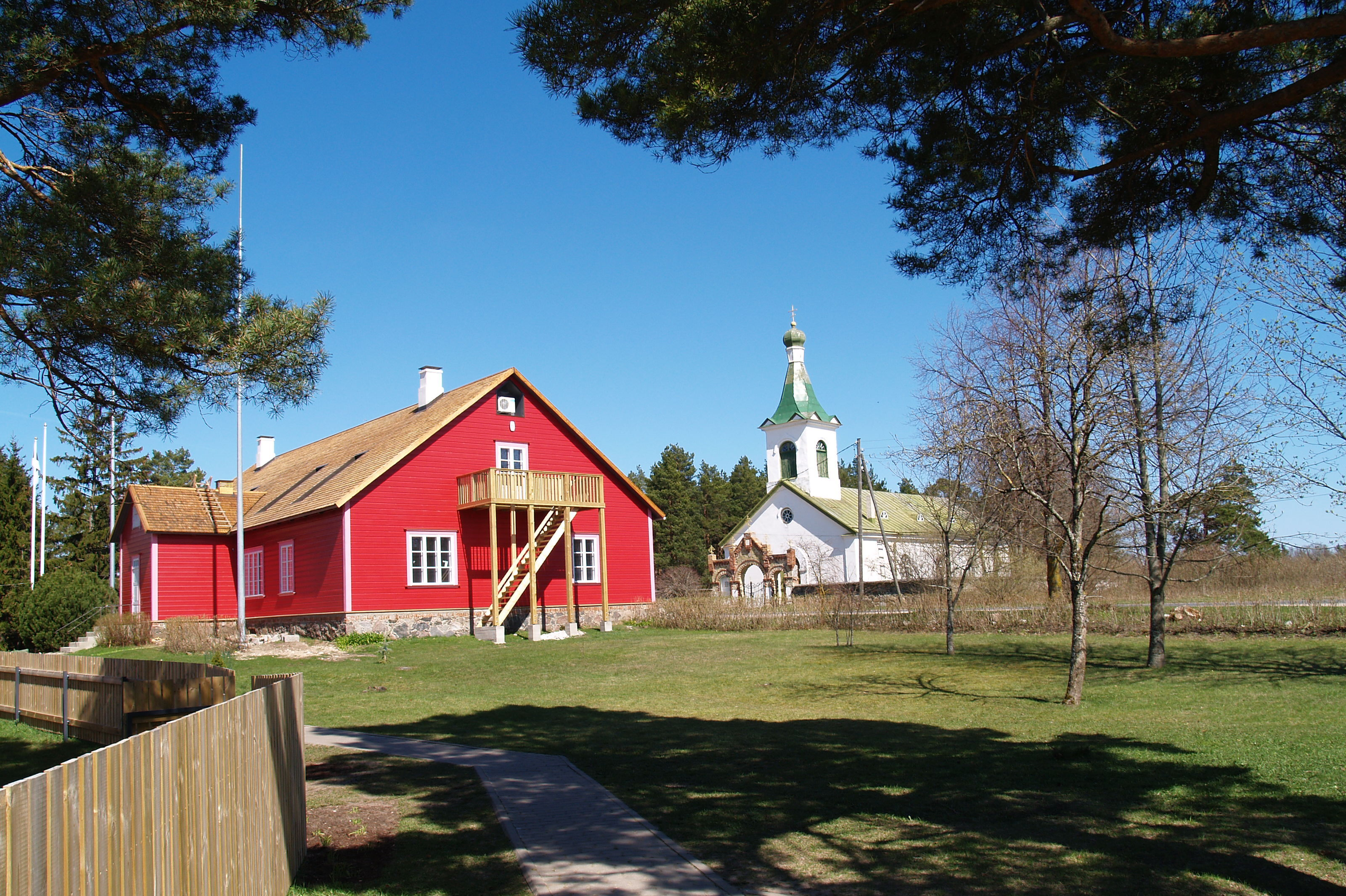 Kihnu museum (red house) and Kihnu church.